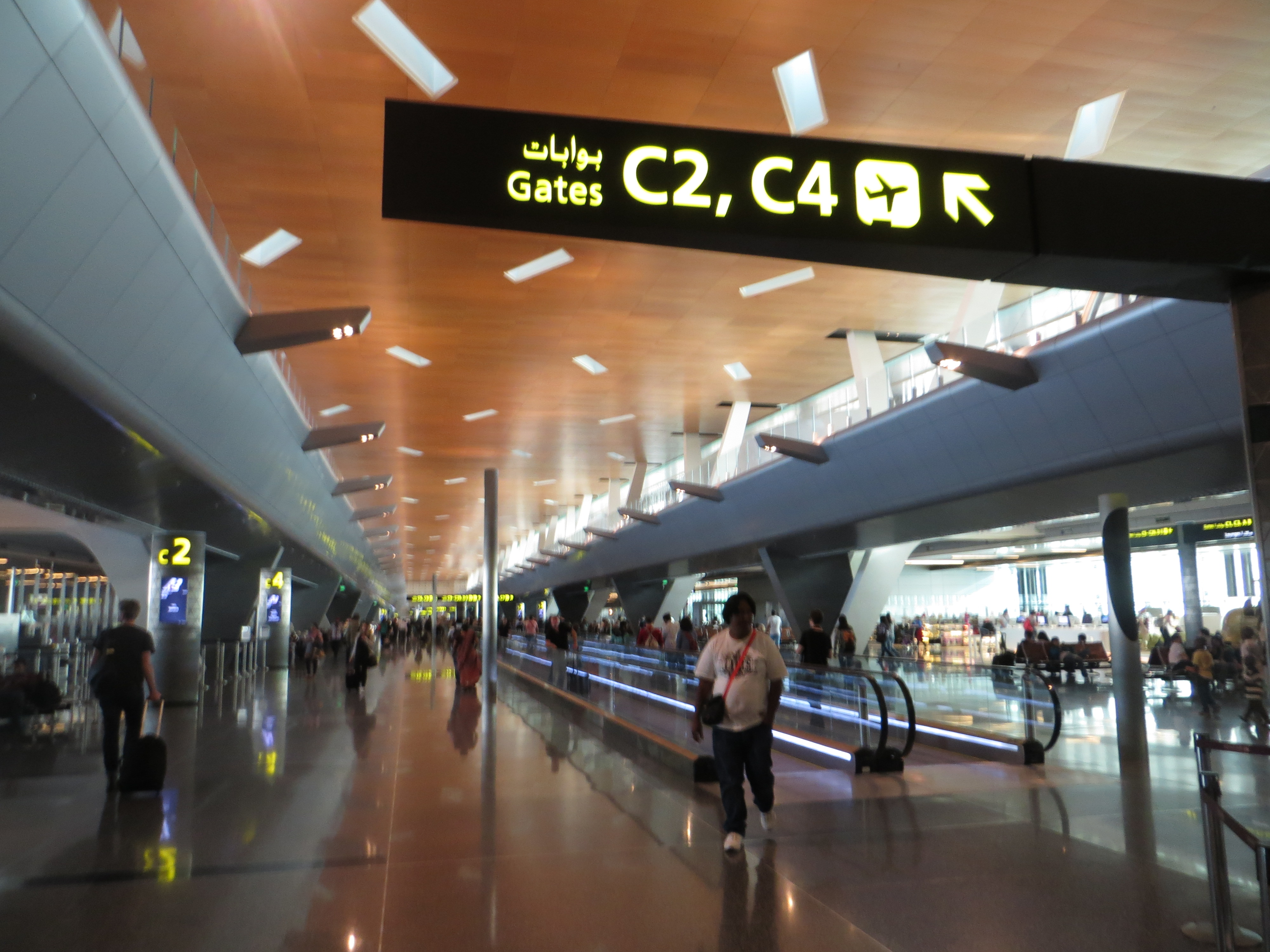 Inside Doha’s new airport, Hamad International.